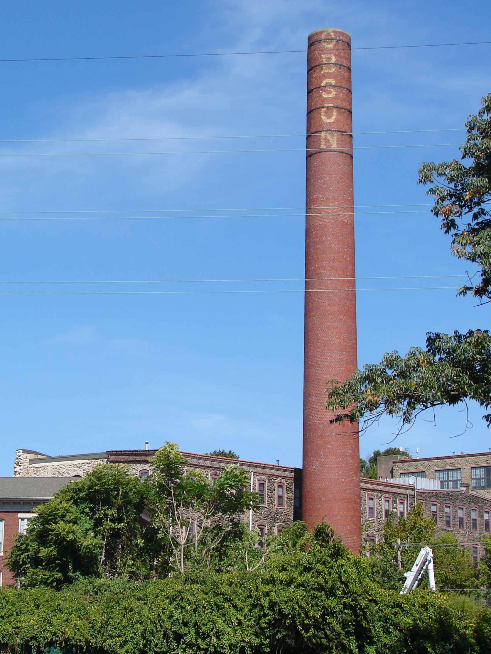 Dobson Mills in Philadelphia on the NRHP since July 28, 1988. At 4001–4041 Ridge Ave.and 3302–3530 Scott's Lane in the Hunting Park Industrial Area of North Philly. Note the smokestack now reads "OBSON" having obviously lost a "D"